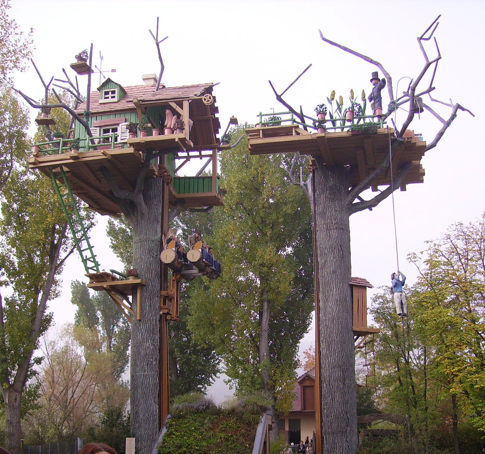 leisure park Tripsdrill near Cleebronn in southern Germany